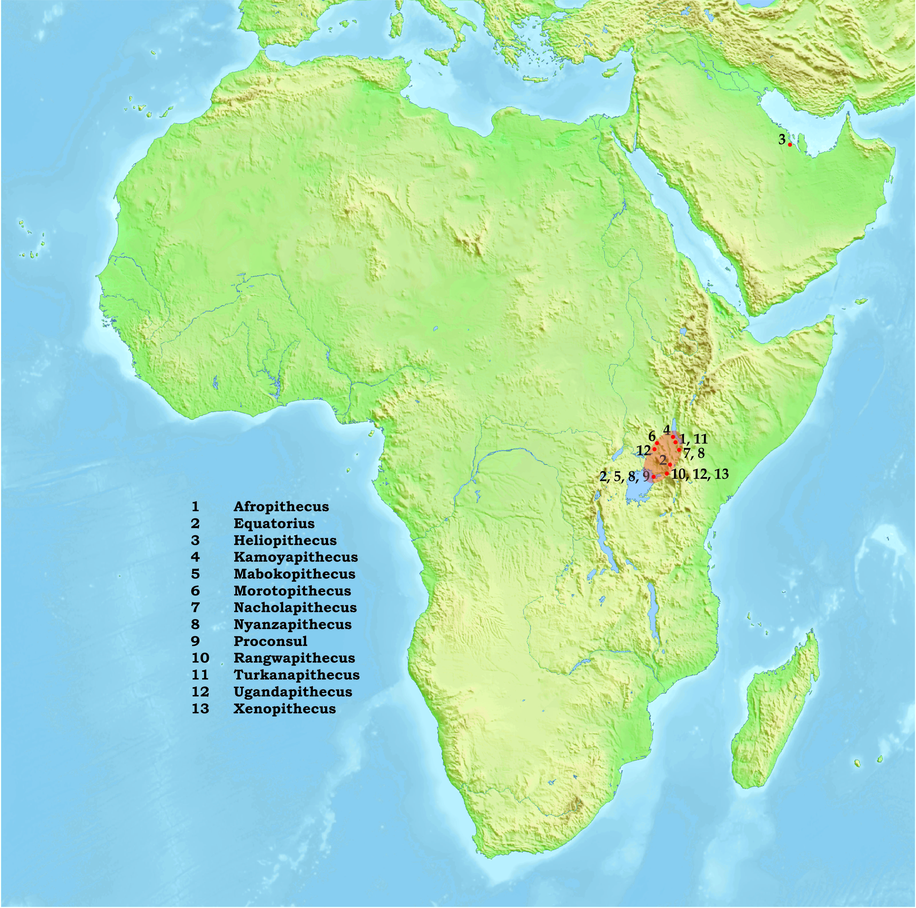 Paleoanthropological sites of lower miocene (24 - 15 Ma)